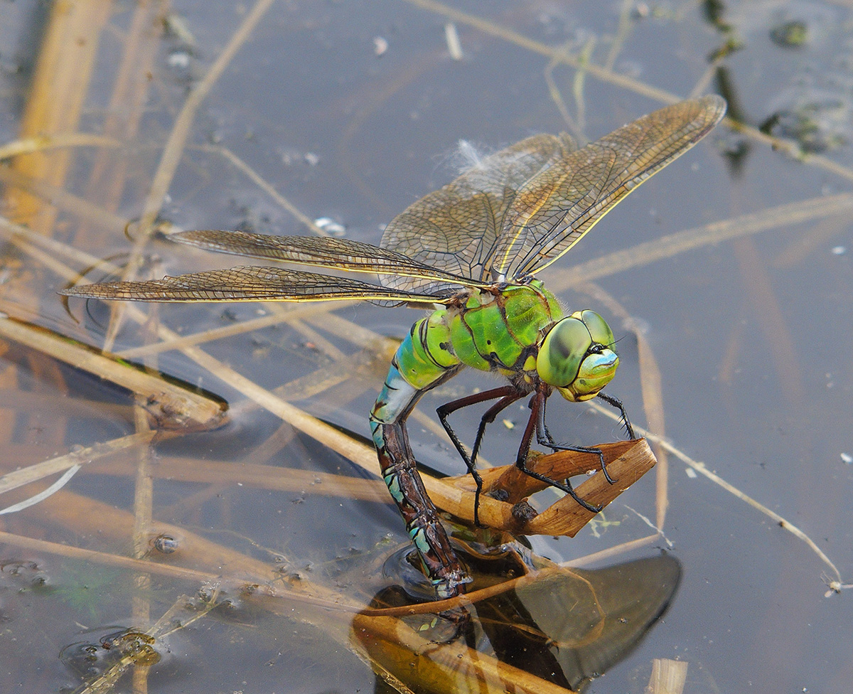 Female blue emperor (Anax imperator) depositing eggs in the Aamsveen in The Netherlands.